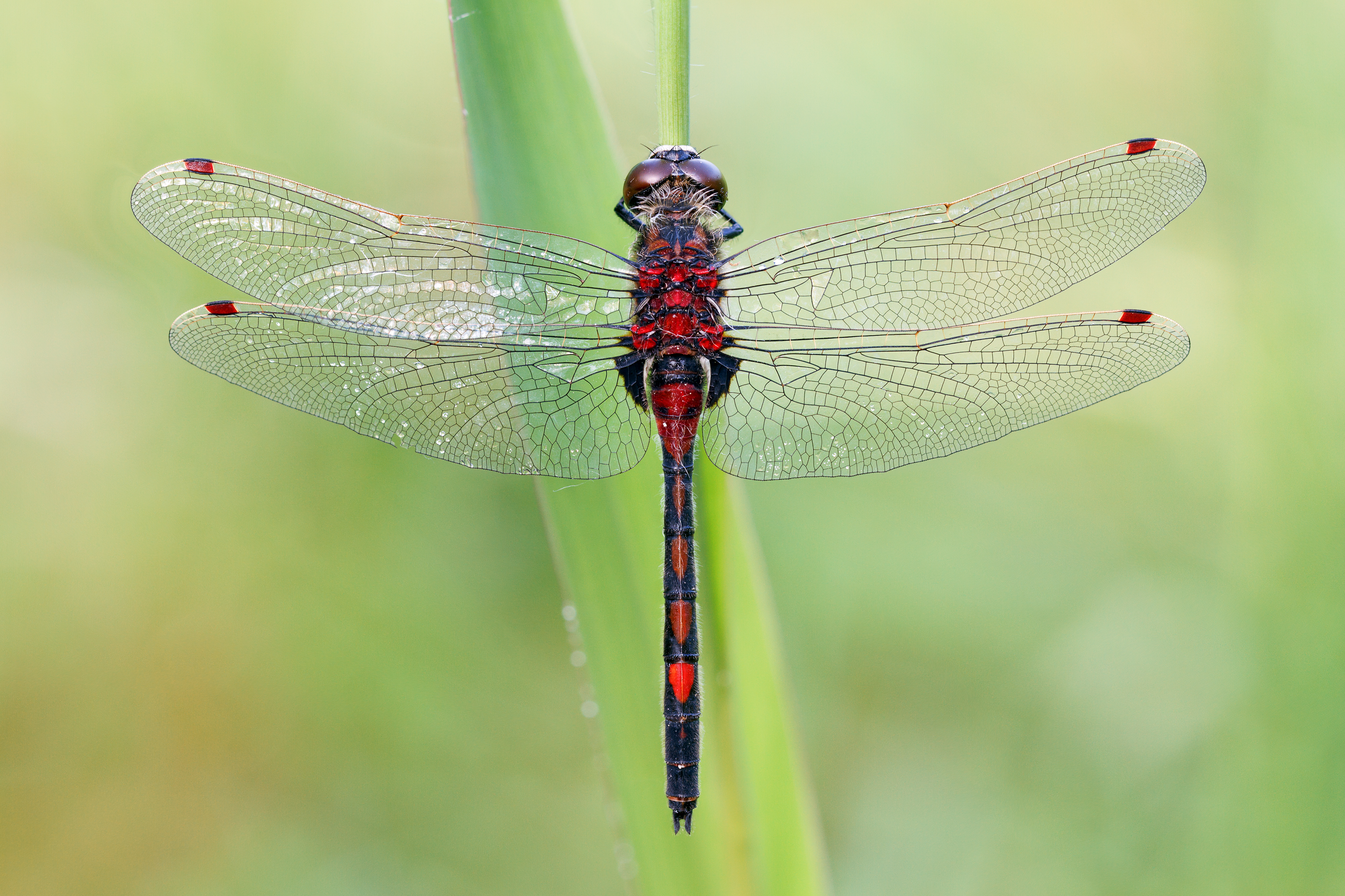 Leucorrhinia rubicunda